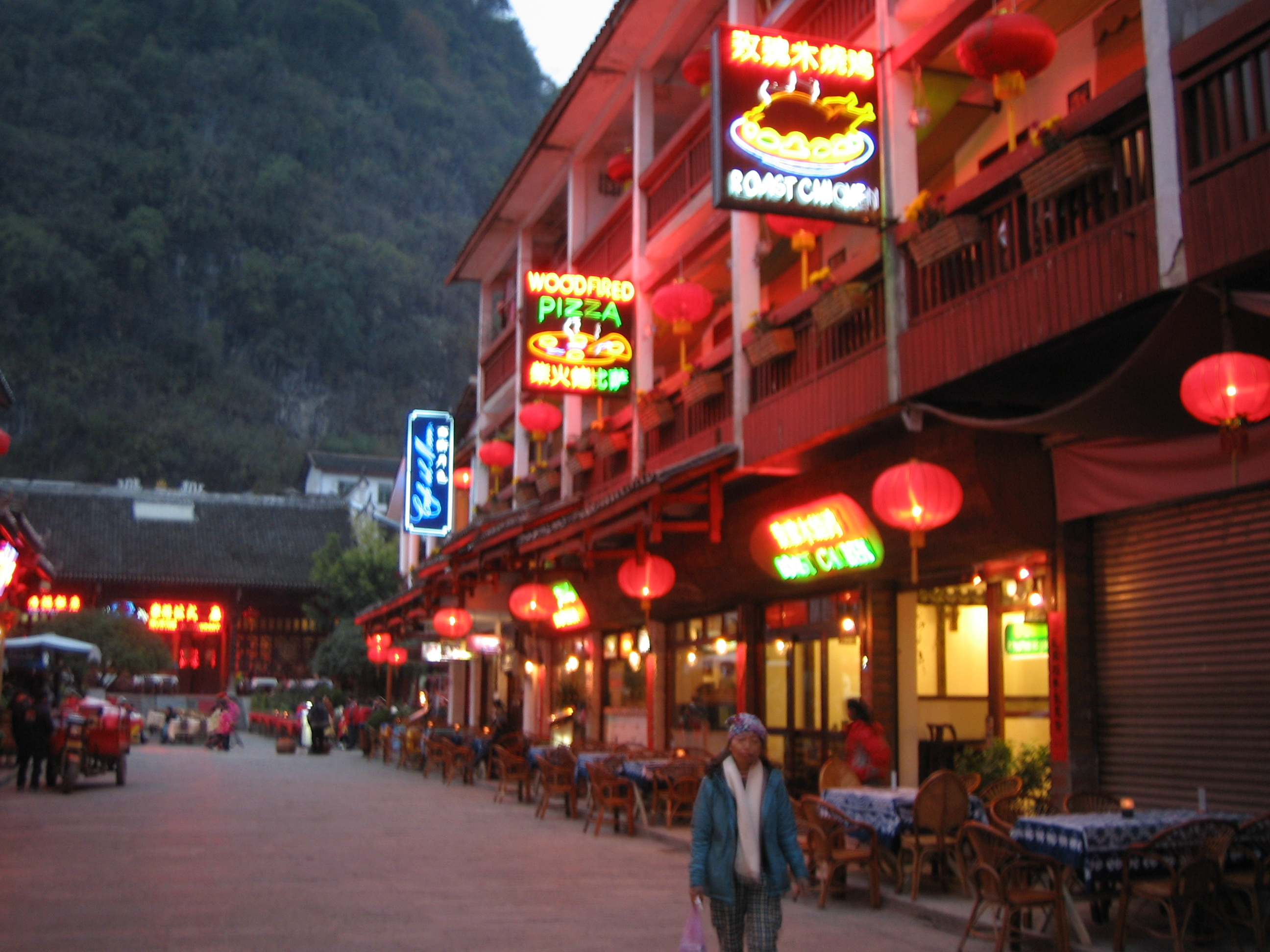 yuan Shuo Xi jie night